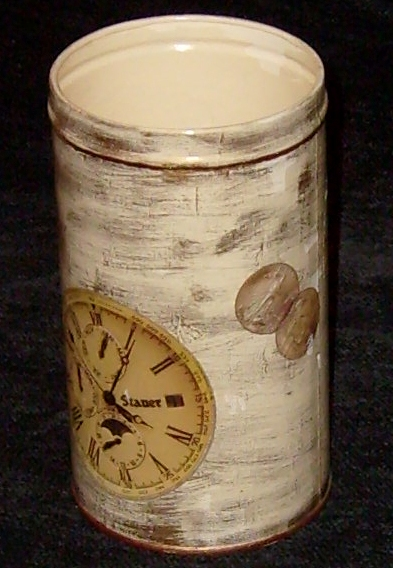 Decoupage can. Painted steel with paper decoupage. Original design.